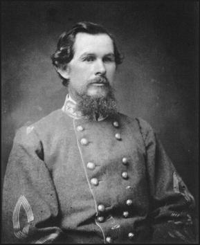 Eppa Hunton, Brigadier General in the Confederate States Army.